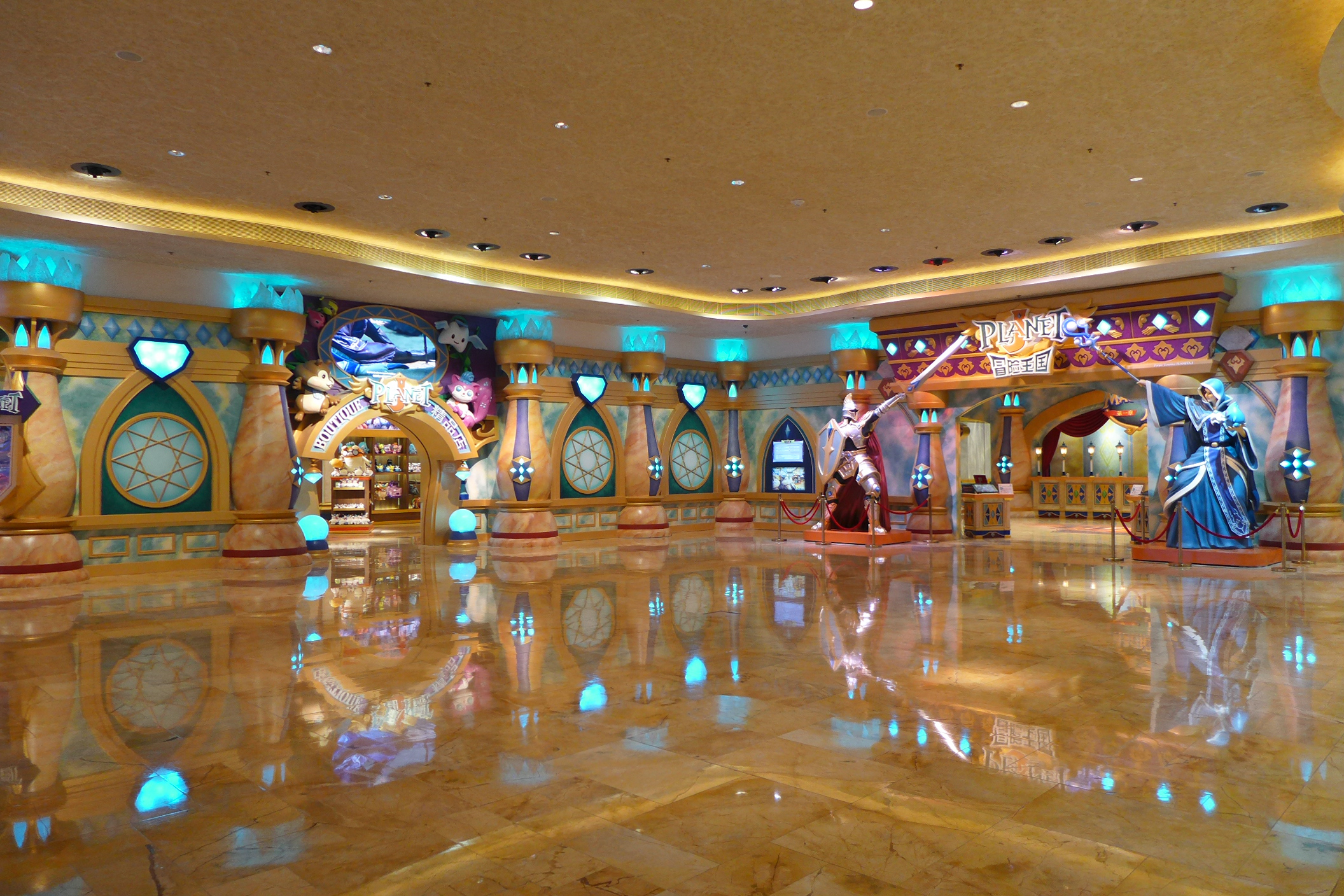 Sands Cotai Central Planet J